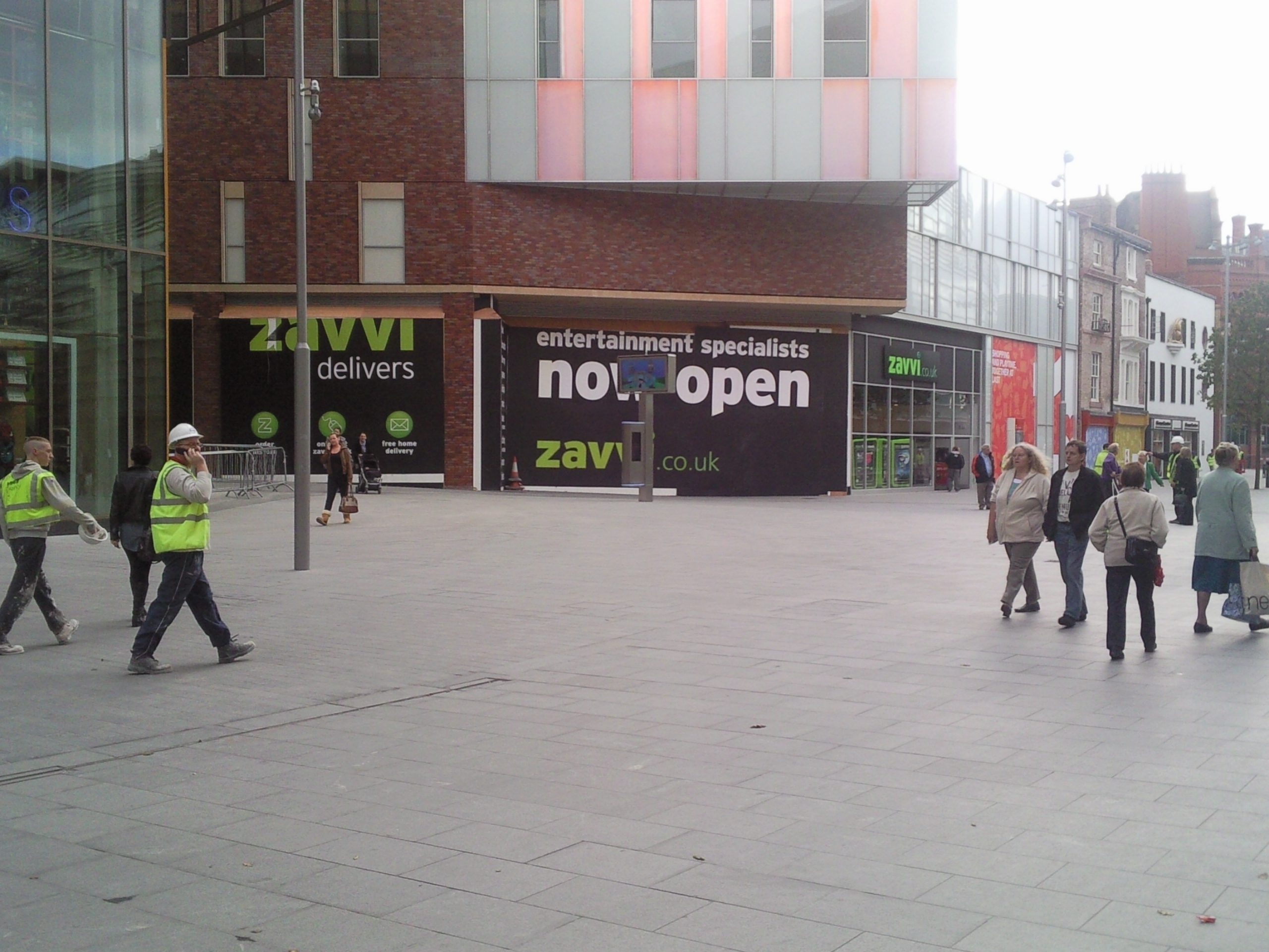 Zavvi, Liverpool One, Liverpool, England